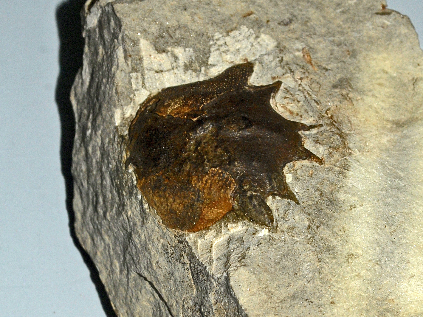 Oligocenic fossil of Calappilia mainii, on display at Museo Paleontologico Giulio Maini, Ovada